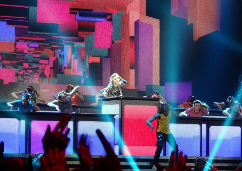 Madonna live at the o2 World, Berlin on 30 June 2012 during her MDNA Tour.